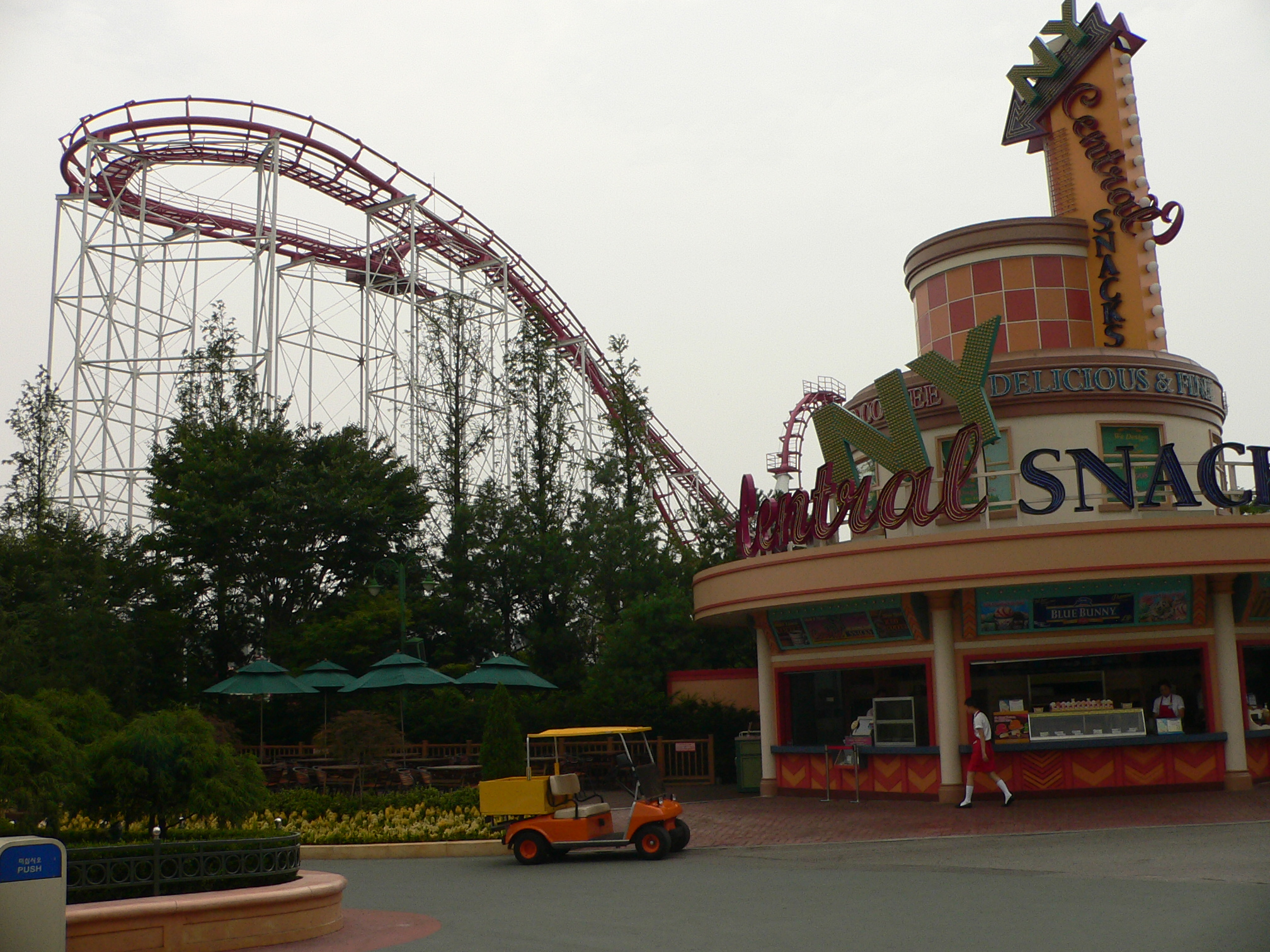 Everland located in Yongin, Gyeonggi Province, South Korea